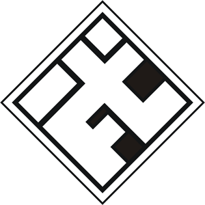 Historical logo of VfL Neu-Isenburg, predecessor of SpVgg Neu-Isenburg, German football team